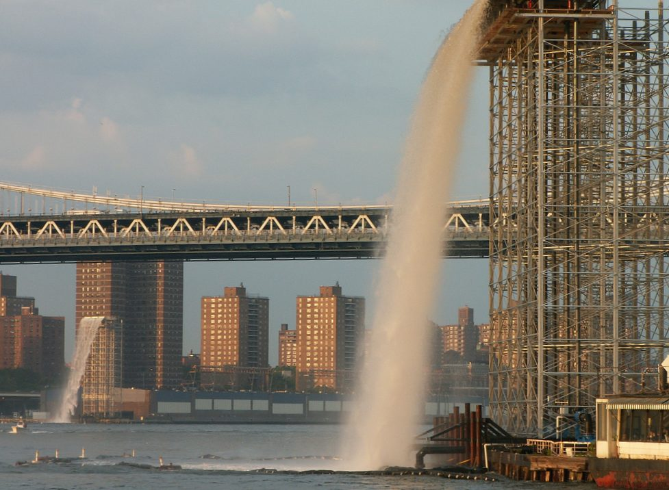 New York City Waterfalls. Waterfall in foreground is under Brooklyn Bridge. The bridge in the background is the Manhattan Bridge.